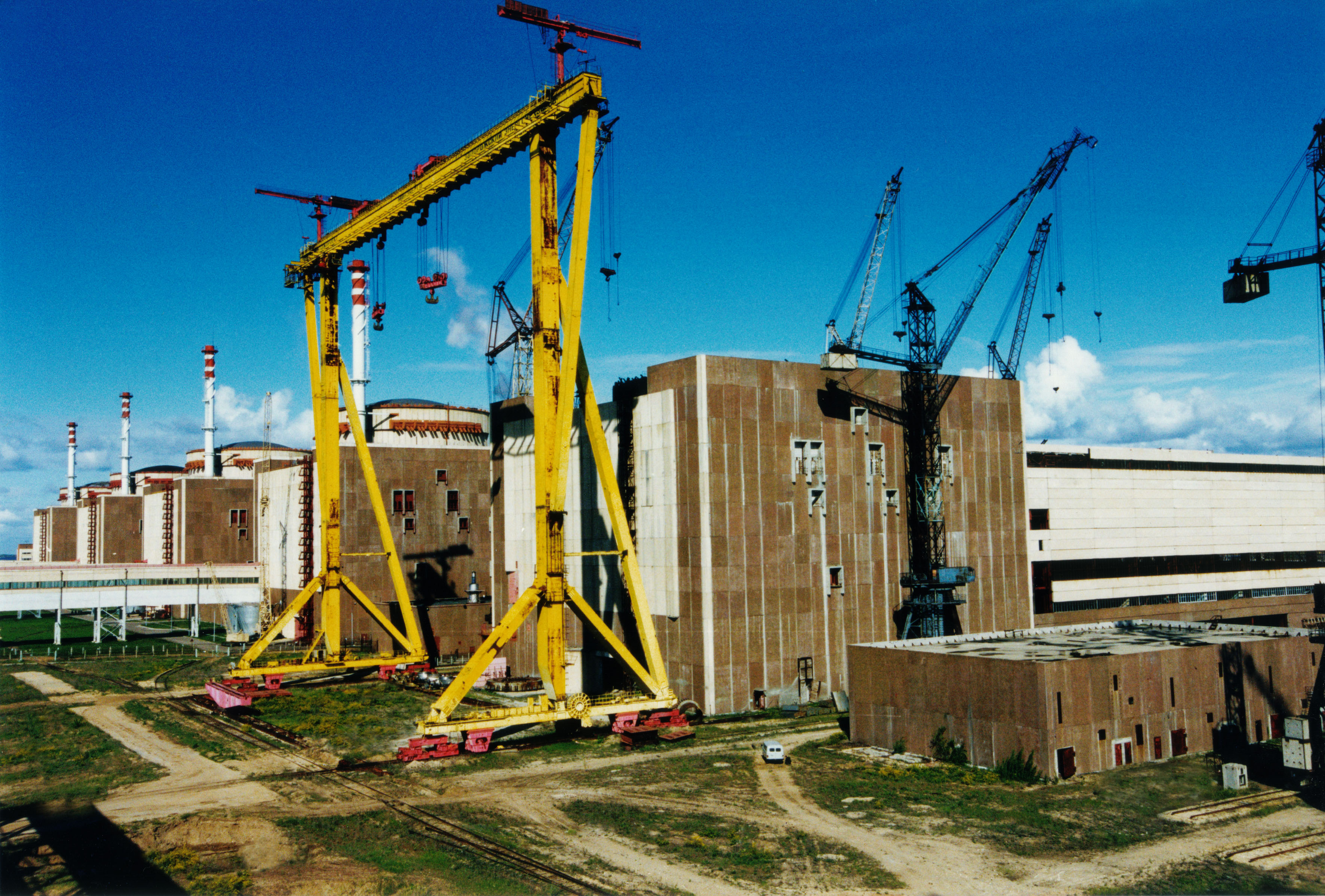 Unit one to five of Balakovo Nuclear Power Plant